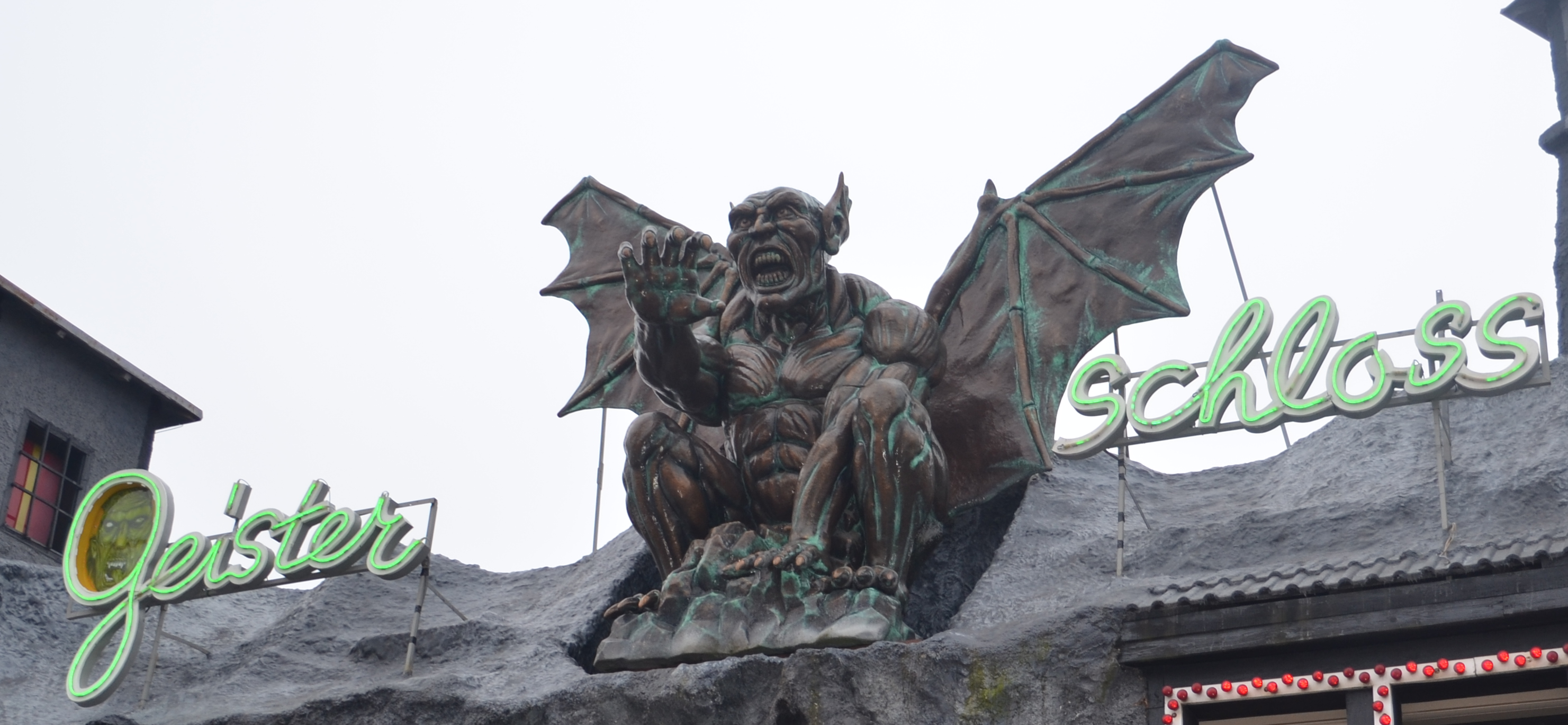 One of the attractions in Prater amusement park, Vienna.